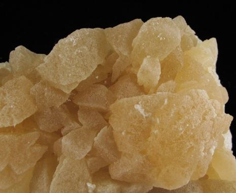 Trona Locality: Owens Lake, Owens Valley, Inyo County, California, USA (Locality at ) Size: 14.4 x 10.8 x 7.8 cm Trona is a rare carbonate found in saline lakes and their evaporites. This is a superb, large example of sugary, translucent, honey-brown crystals of large size. Such specimens from this locale are considered to be the finest examples of the species. From a small find. Ex. Karl Faddis Collection.